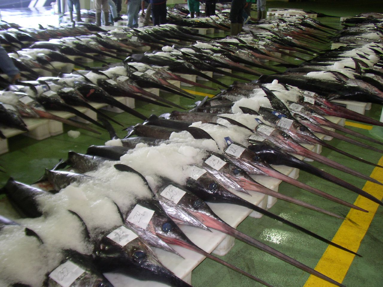 Poxa de peixe espada na lonxa de Vigo. Swordfish auction in the fish market of Vigo.